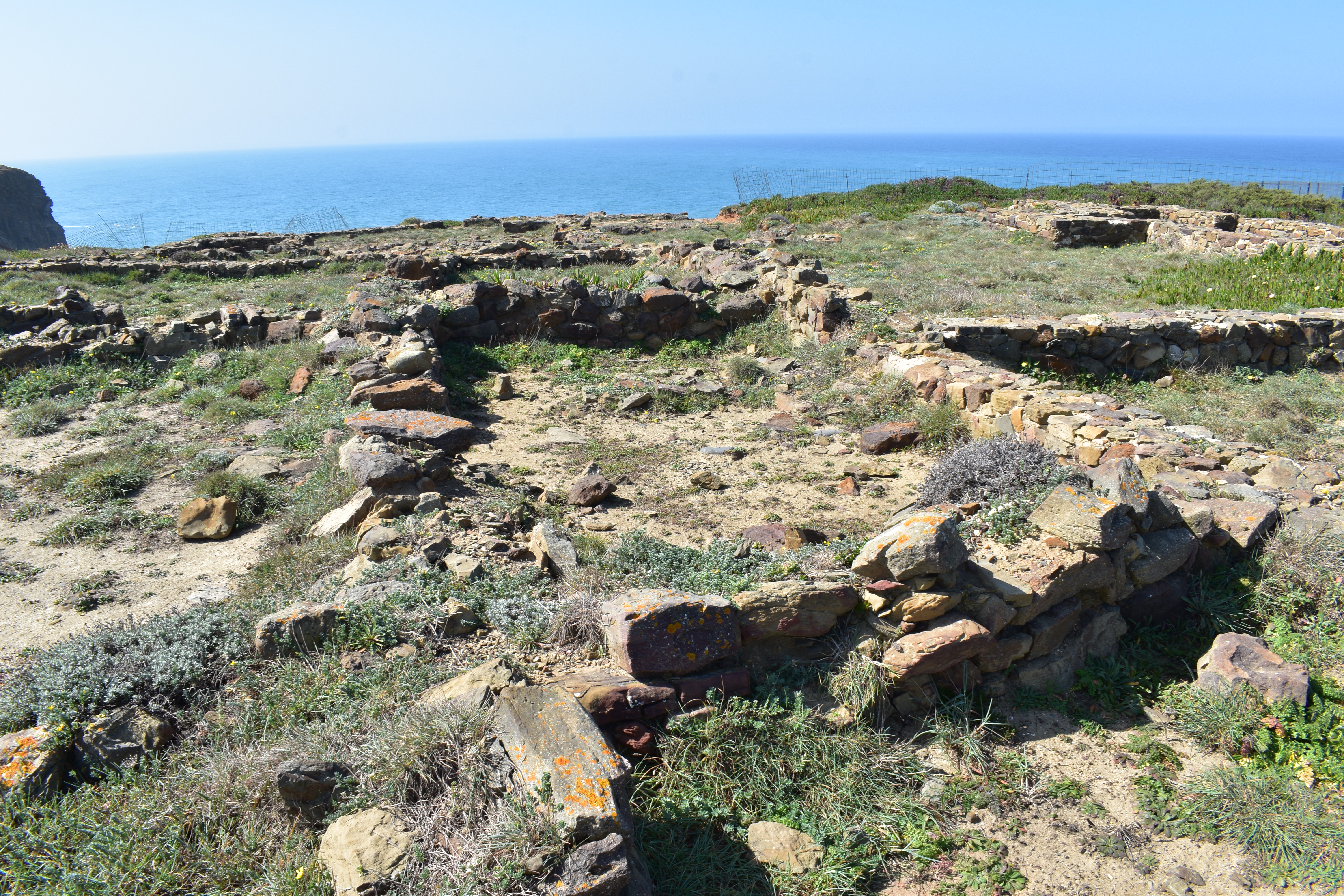 Sector I of the Arrifana Ribat ruins, in Algarve, Portugal.